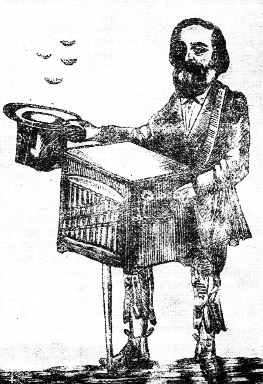 C. A. Rosetti, the Romanian politician and writer, as busker (organ grinder). Fragment of a satirical leaflet, original preserved in the Romanian Academy Library. The other half of a cartoon shows Rosetti's political ally Ion Brătianu force-training a monkey (who is probably the acting Prime Minister Creţulescu or Conservative Opposition leader Dim. Ghica).